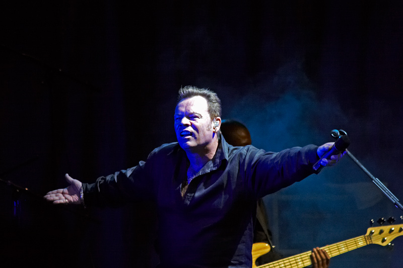 Singer Alistair Ian Campbell (Ex UB40) open air in public space at the town celebrations of Timisoara, Romania